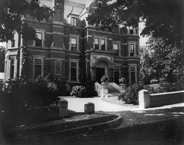 R. B. Angus Residence, Drummond St., Montreal, QC, about 1920 About 1920, 20th century; Silver salts on paper - Gelatin silver process; 8 x 10 cm; Gift of Mr. Robert C. Vose Jr.; © Musée McCord